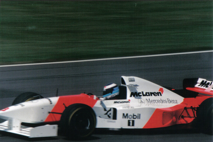 Mika Häkkinen driving for McLaren at the 1995 British Grand Prix.